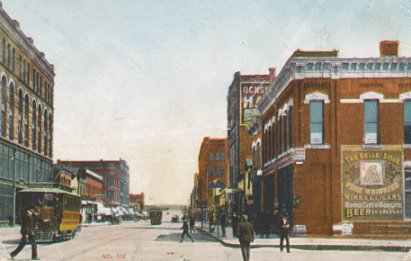 Sioux City, Iowa, early 1900s postcard